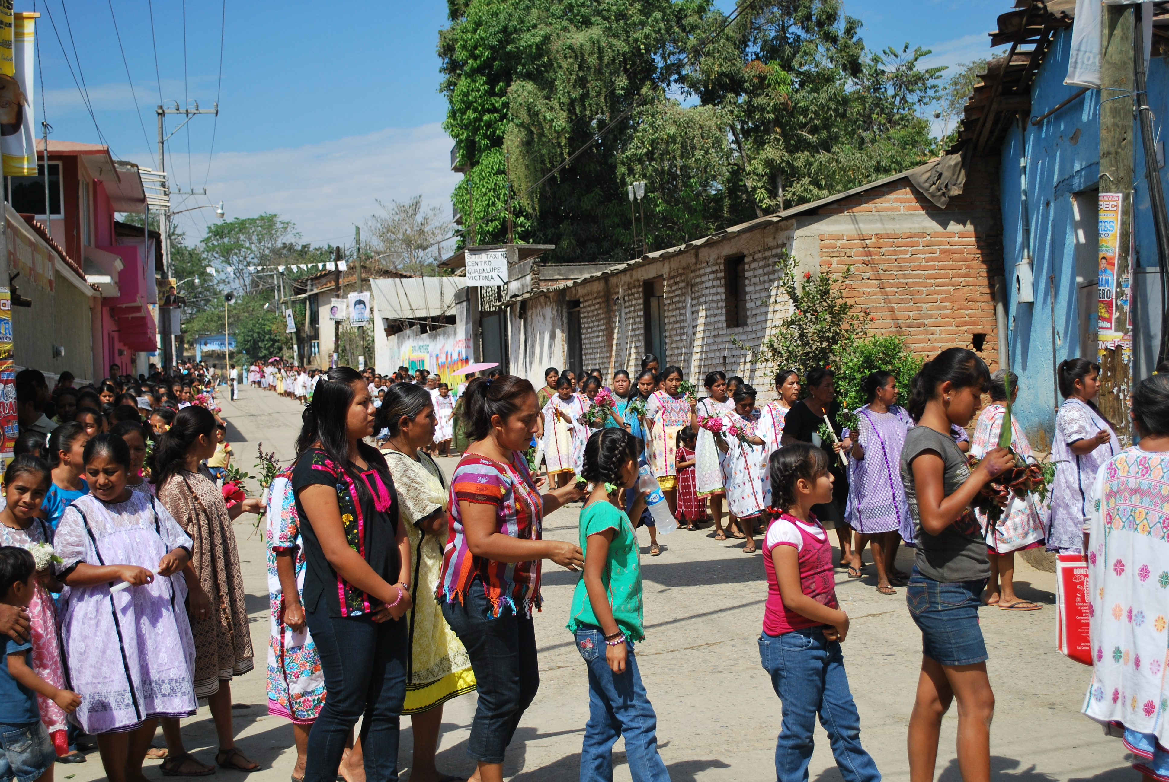 Good Friday procession in Xochistlahuaca, Guerrero